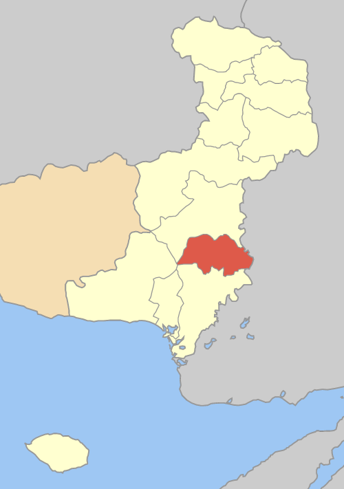 Locator map of Tychero municipality (Δήμος Τυχερού) in Evros prefecture (Νομός Έβρου) in Greece.